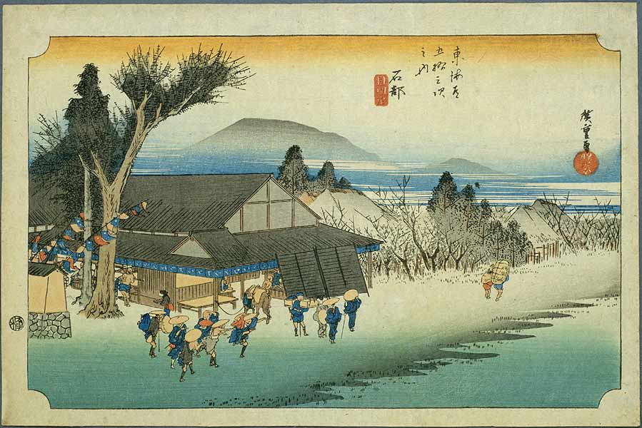 Ishibe on the Tokaido, ukiyo-e prints by Hiroshige